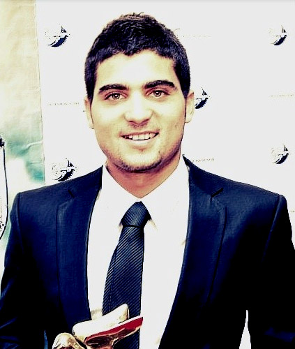 Oshri cohen holding the "golden lion prize" for best movie. He played the lead role for the winning movie: "LEBANON".